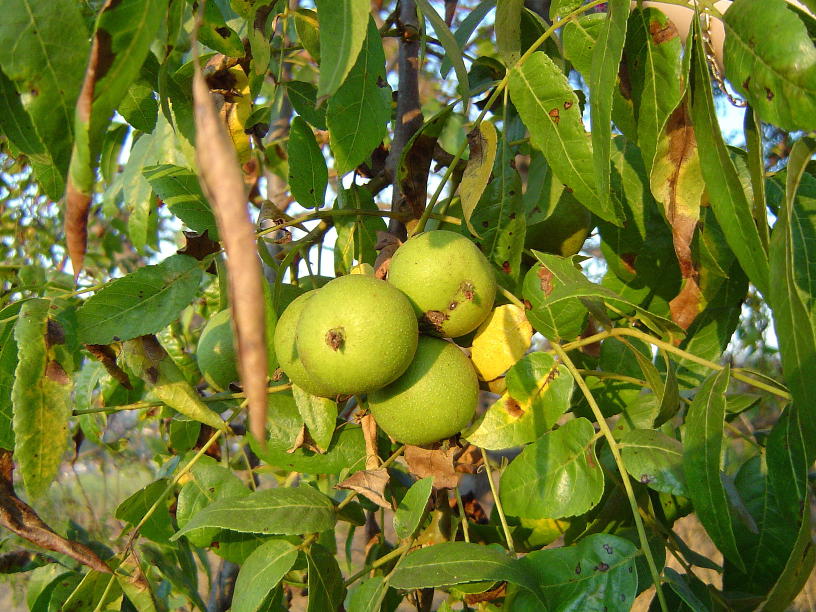 California Black Walnut in Puente Hills. Photographed and uploaded by user:Geographer.